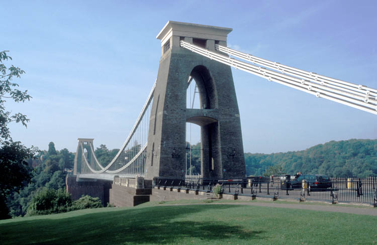 The Clifton Suspension Bridge, seen from the Clifton side of the river. Despite the title, the current version of this image is 750 pixels wide. Image:Clifton.bridge.300pix.jpg is the smaller version of this image.